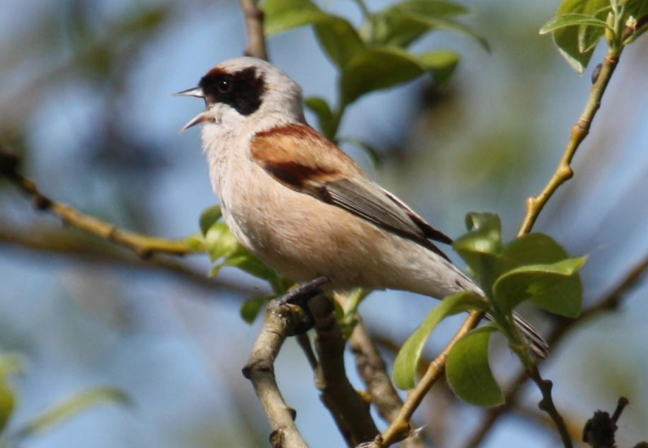 A European Penduline Tit in Estonia. When the photographer first noticed this bird, the nest consisted of only the top bit where it attaches to the branch. An hour later he had made a complete circle. Here he's taking a little break to sing.